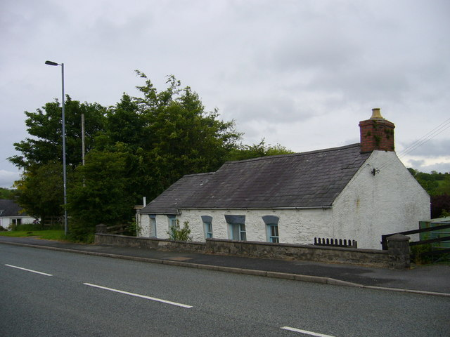 Cottage in Blaenffos on the main street (A478). The trees on the left are in what was a cutting of the Whitland and Cardigan Branch of the GWR. The cottage is below road level and probably seemed even lower in the past because the road may have crossed the railway with a hump bridge at this point.